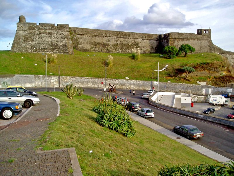 Sao Sebastiao Fortress in Angra do Heroísmo, Azores, Portugal